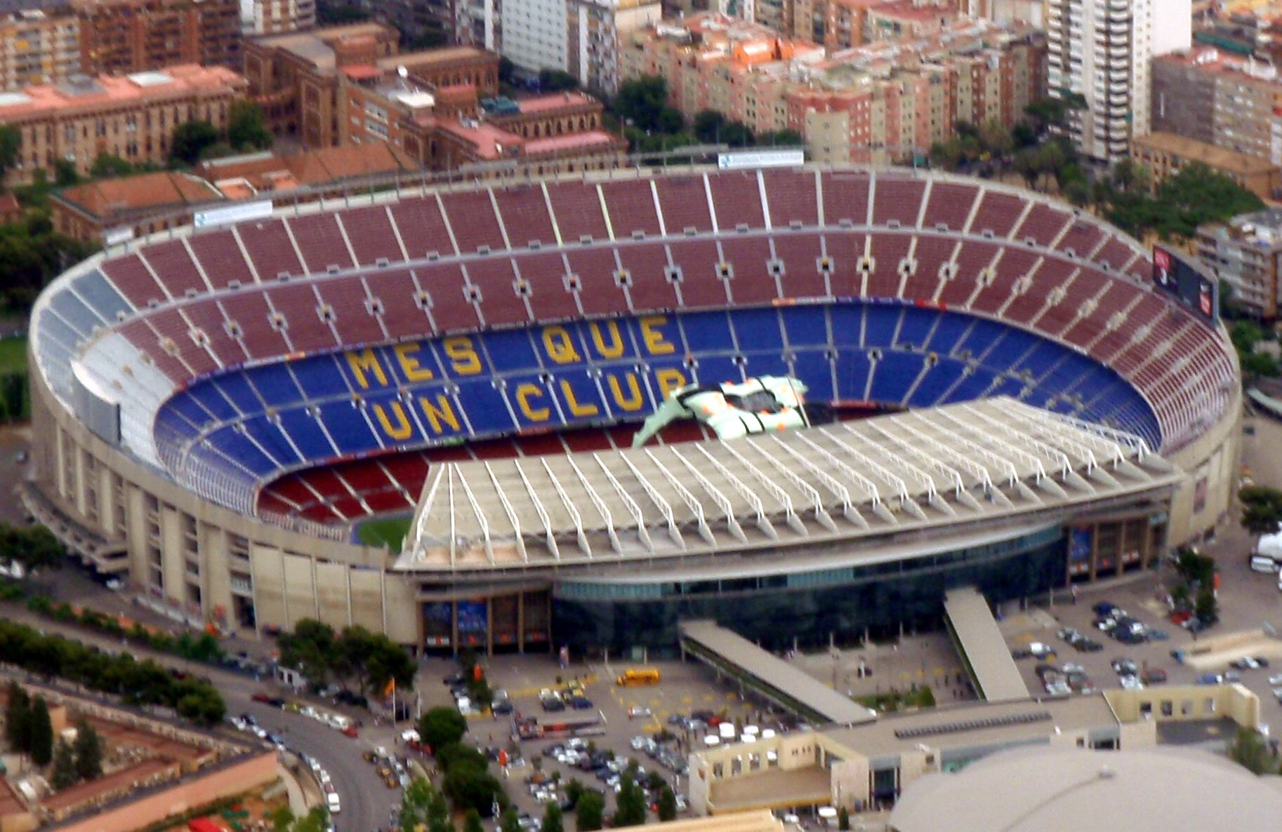 The Camp Nou is the biggest stadium in Europe and offers seats to 98,787 visitors.